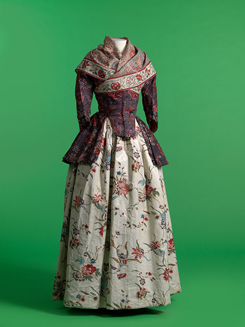 Anonymous, Jacket and shawl in chintz, skirt in glazed printed cotton, 1770-1800. MoMu Collection T13/338/B14, T13/347/B89. Jacoba de Jonge Collection in MoMu - Fashion Museum Province of Antwerp, Photo by Hugo Maertens, Bruges.